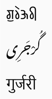 gurjari specimen